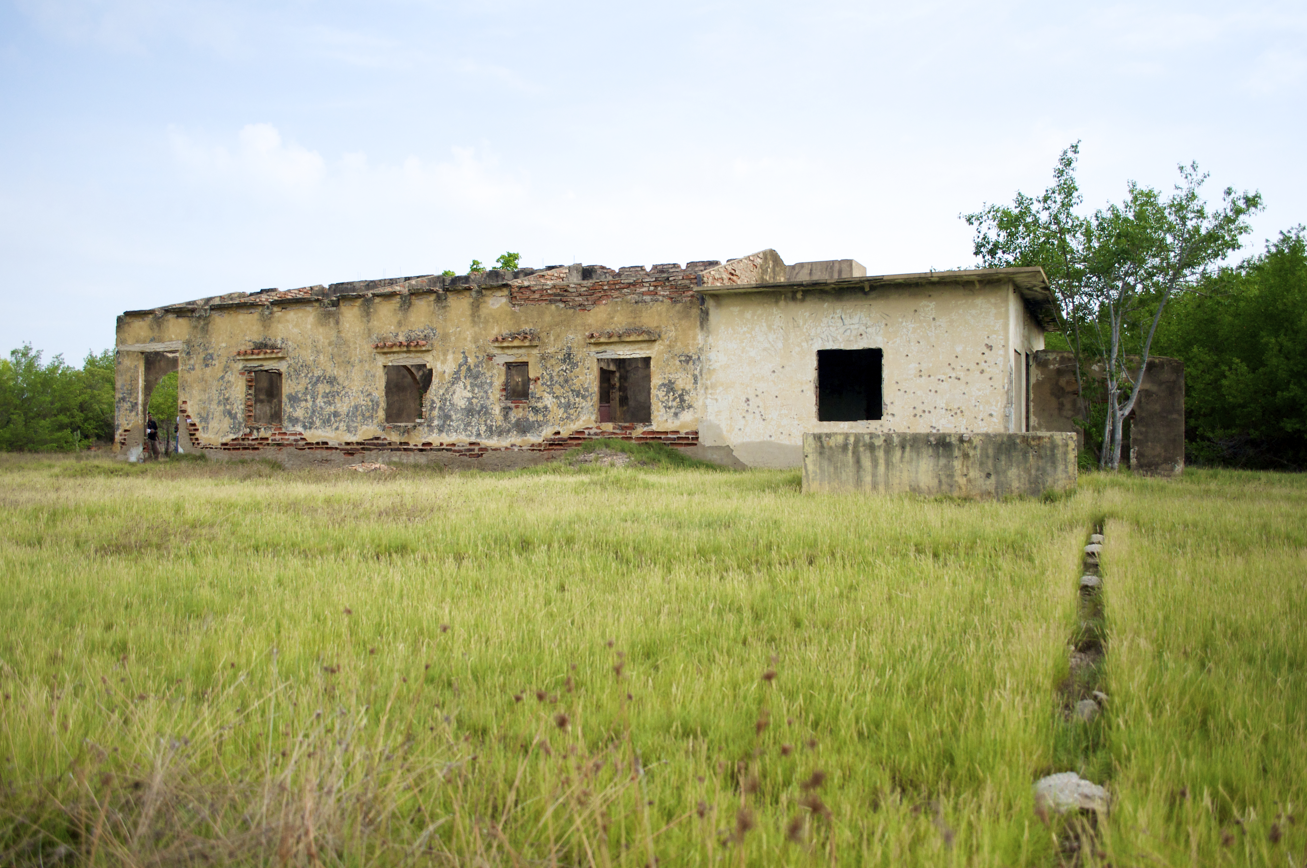 Remains of a house on the island of Providence in Venezuela, this island was abandoned in 1984 after Dr. Jacinto Convit discovered the cure for leprosy